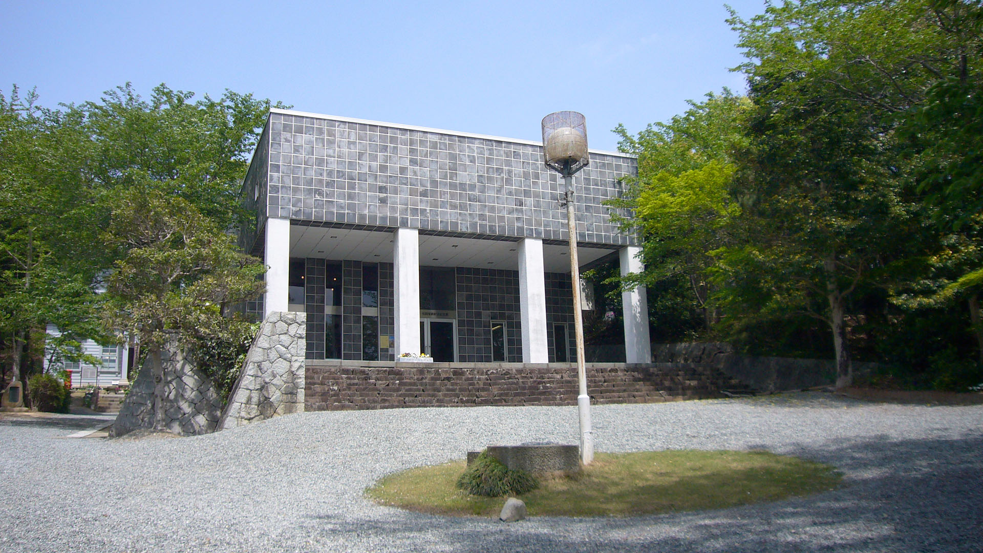 Yanagita Kunio Memorial Hall in Fukusaki, Hyogo, Japan